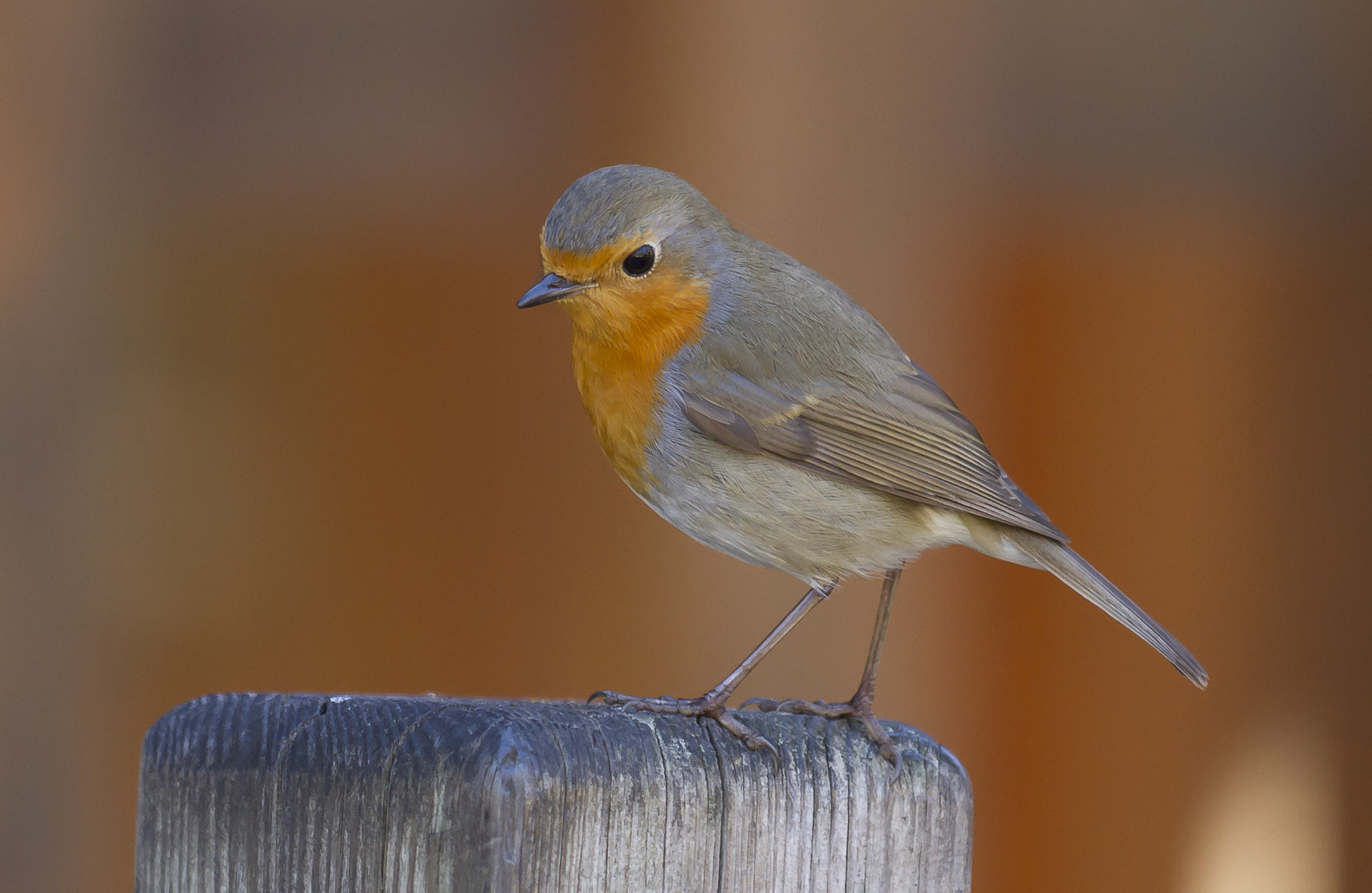 Erithacus rubecula in the japanese tea house of Compans Caffarelli in Toulouse.